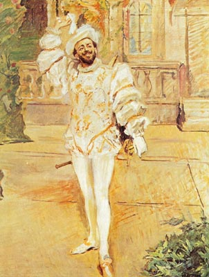 One of three paintings by Slevogt that portrayed Francisco D'Andrade in the title role of Mozart's Don Giovanni. The painting depicts the "Champagne Aria" scene (Fin ch'han dal vino).